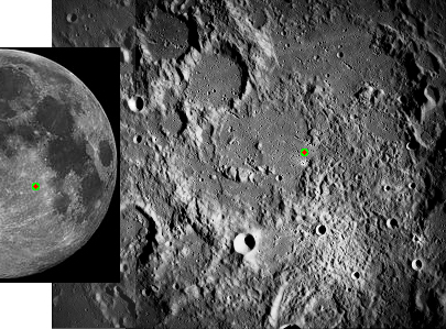 Diagram of Apollo 16 landing site, Descartes Highlands, on the moon. The landing site is marked by a yellow and red dot on each image.